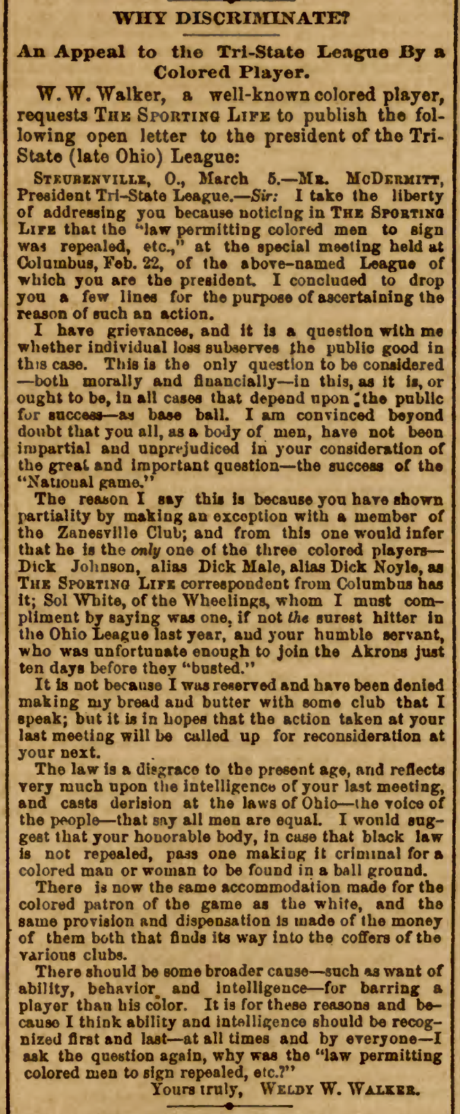 Letter on racial segregation in baseball written by Weldy D. Walker published in The Sporting Life